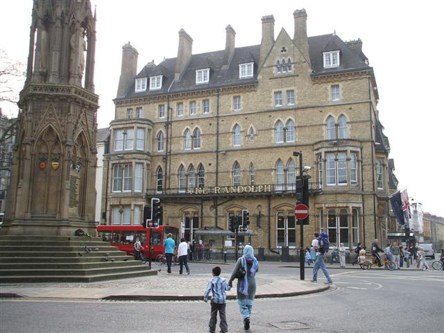 The Randolph Hotel, Oxford It is located at the corner of Magdalen Street and Beaumont Street.